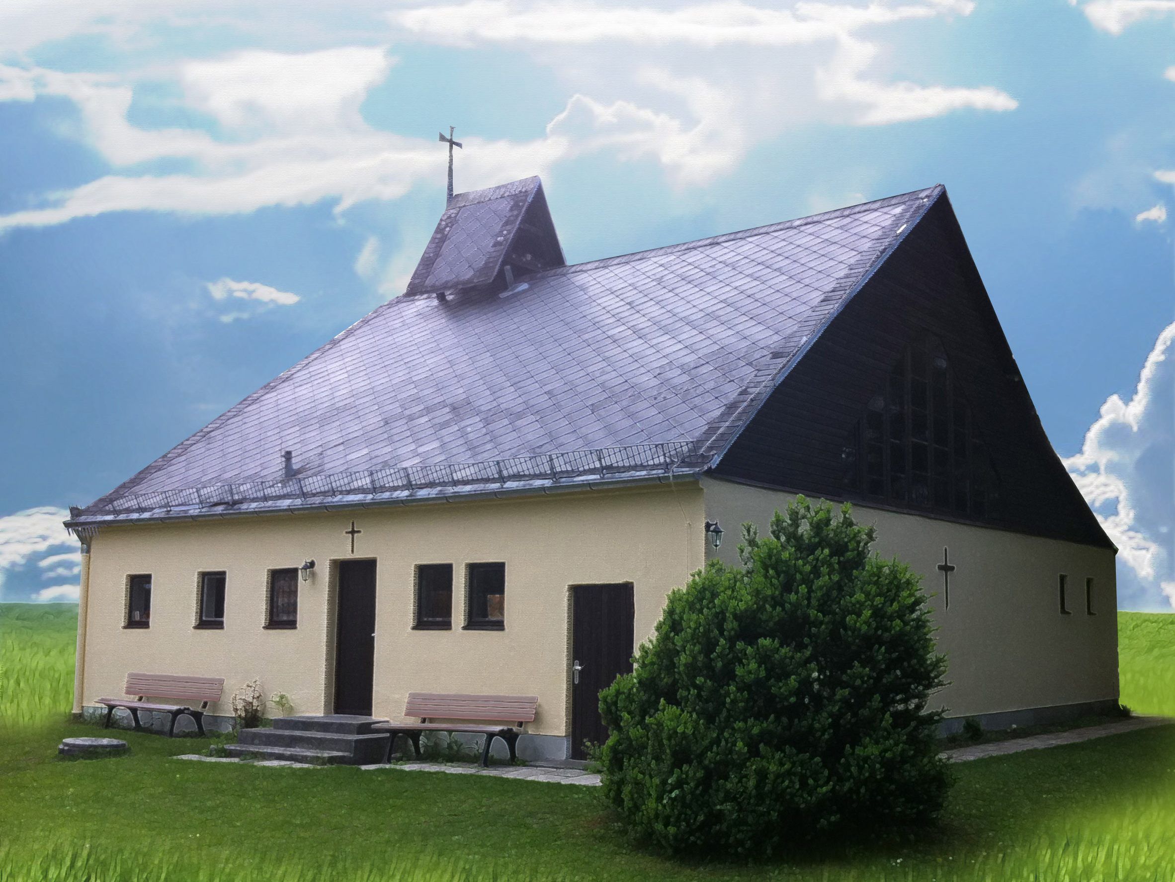 St. King Vakhtang Gorgasali Georgian Orthodox Church in Munich